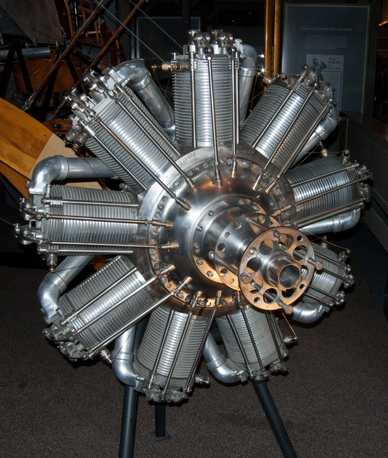 The Bentley rotary engine was designed by Captain W. O. Bentley during the early part of World War I with the objective of obtaining a lighter and more efficient rotary engine than existing engines. The weight-saving effect was realized by careful design and the use of aluminum wherever possible. The Bentley B. R. 2 rotary aircraft engine powered a variety of World War I aircraft including, among others, the: Sopwith F.1 Camel and 7F.1 Snipe; Nieuport B.N.1; and Vickers F.B.26A Vampire II. This Bentley B.R. 2 was built by Humber Ltd., one of five British companies that manufactured this model during World War I.